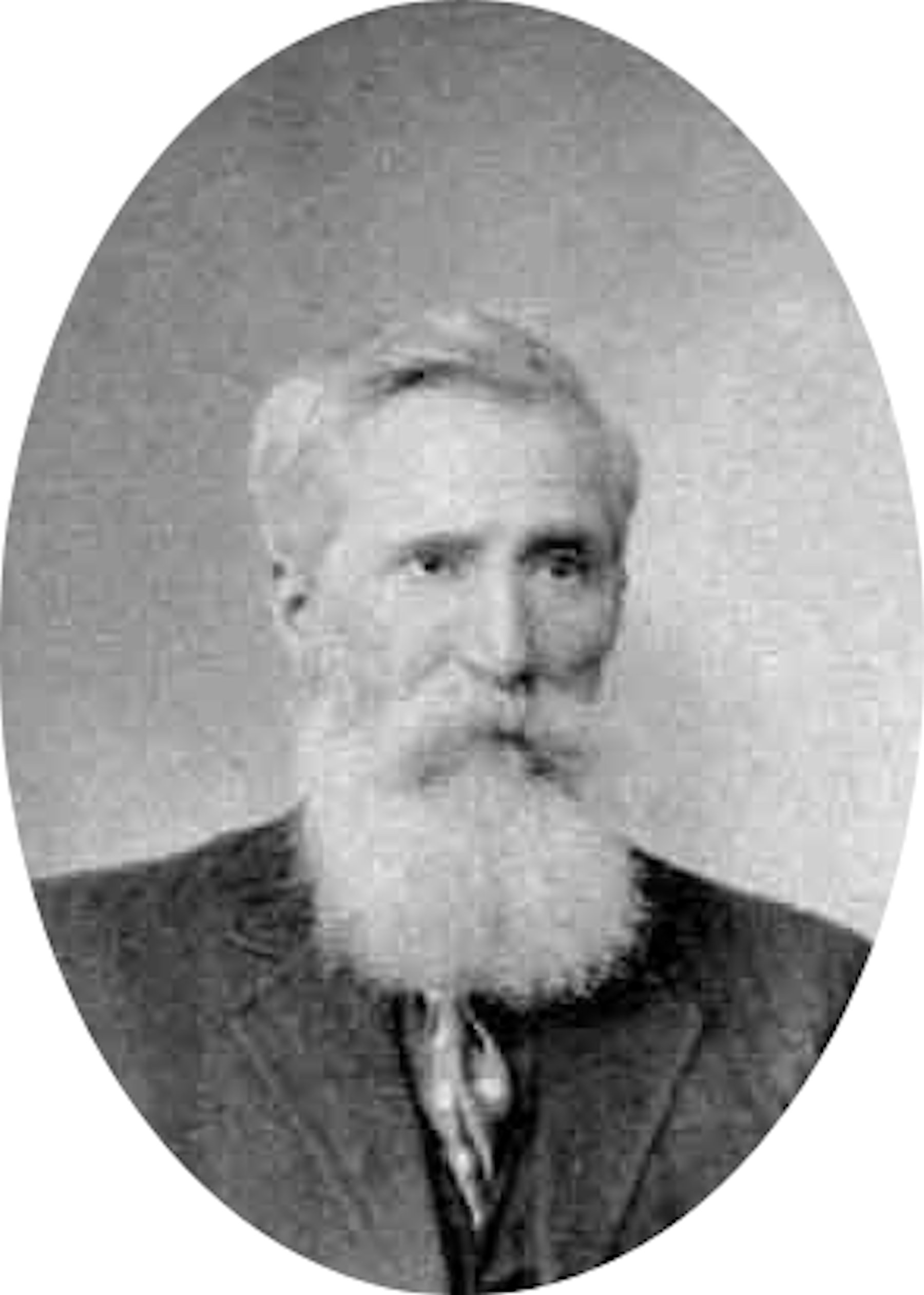 Medal of Honor winner